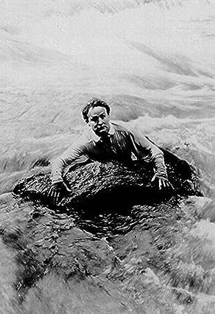 Harry Houdini (1874-1926) swims river in scene from The Man from Beyond, 1921. The movie included Houdini swimming the Niagara falls, but it is not confirmed if the image shown here is indeed at the Niagara falls.